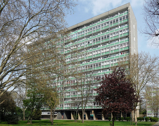 Sceaux Gardens Estate, Havil Street (2)